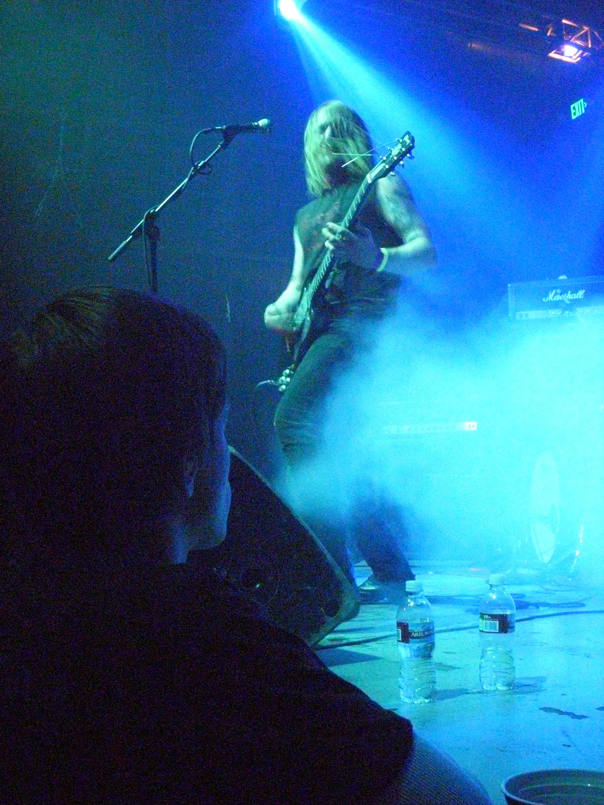 Blake Judd of Nachtmystium playing live.